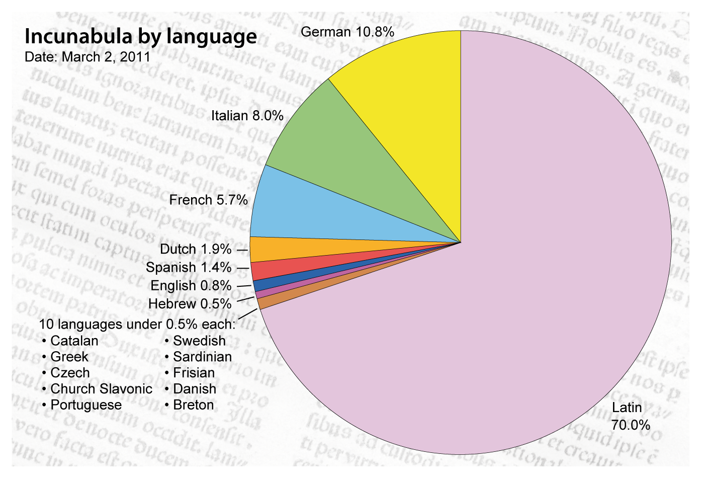 Incunabula distribution by language. The data is based on the Incunabula Short Title Catalogue of the British Library (as of March 2, 2011).